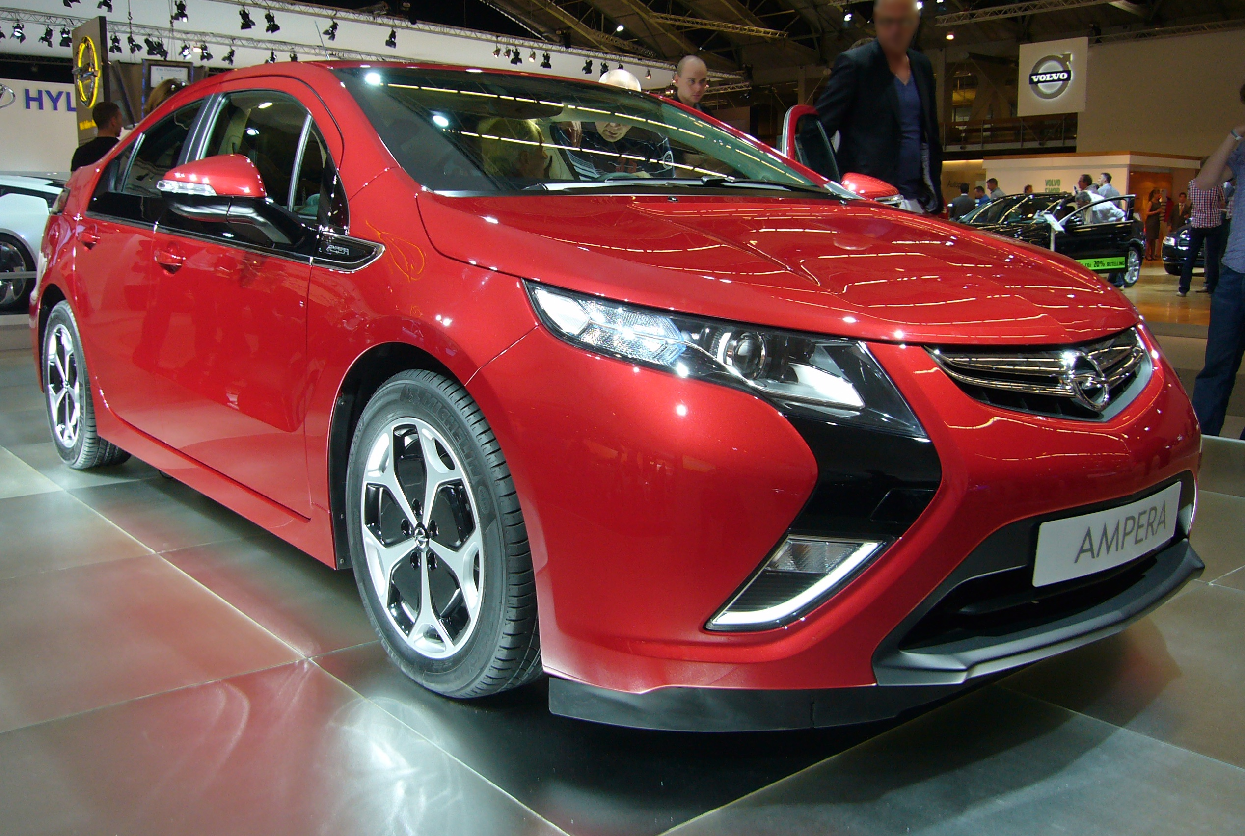 Opel Ampera at AutoRAI Amsterdam 2011